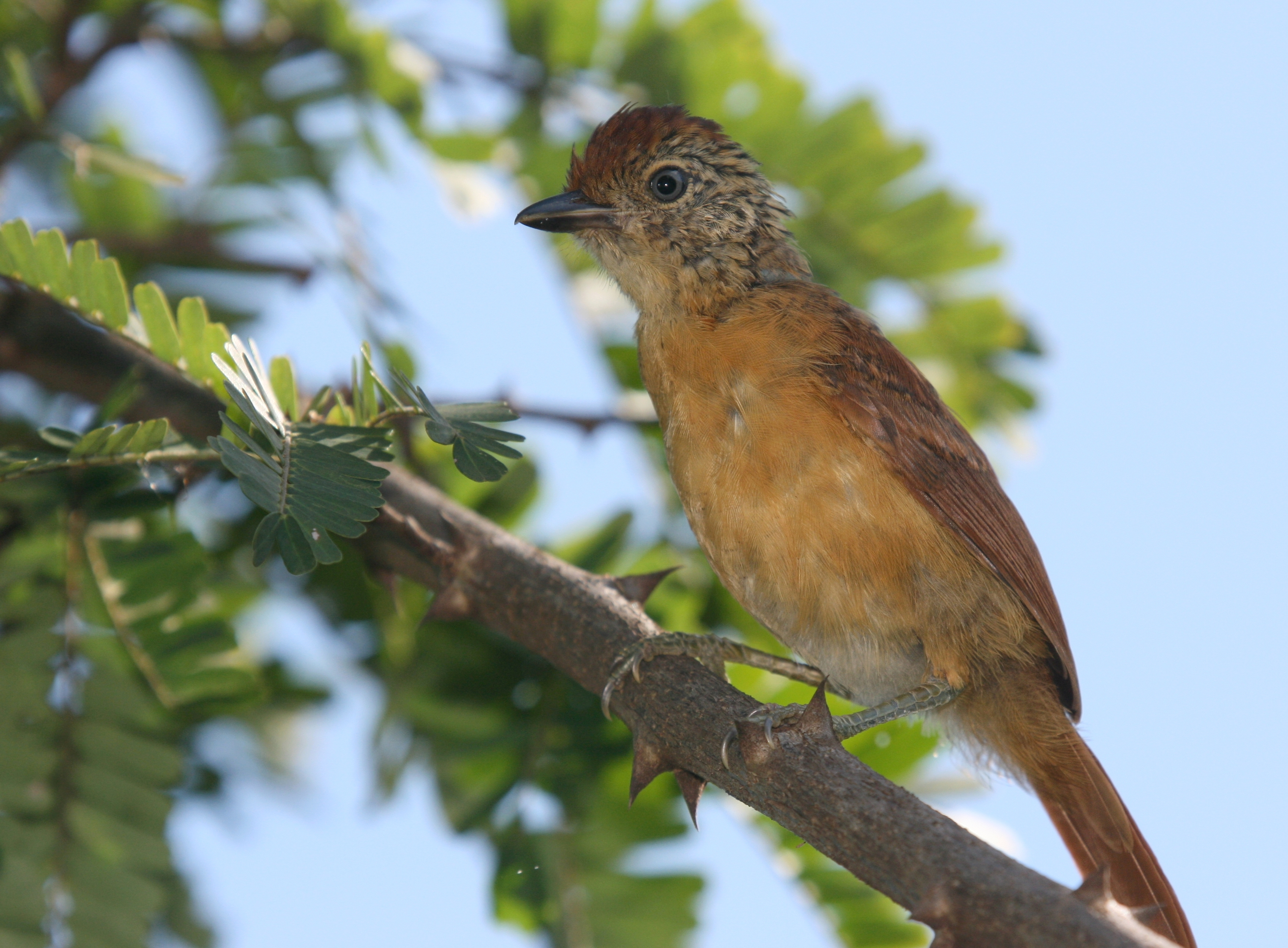 A juvenile female Barred Antshrike in Goiânia, Goiás, Brazil.